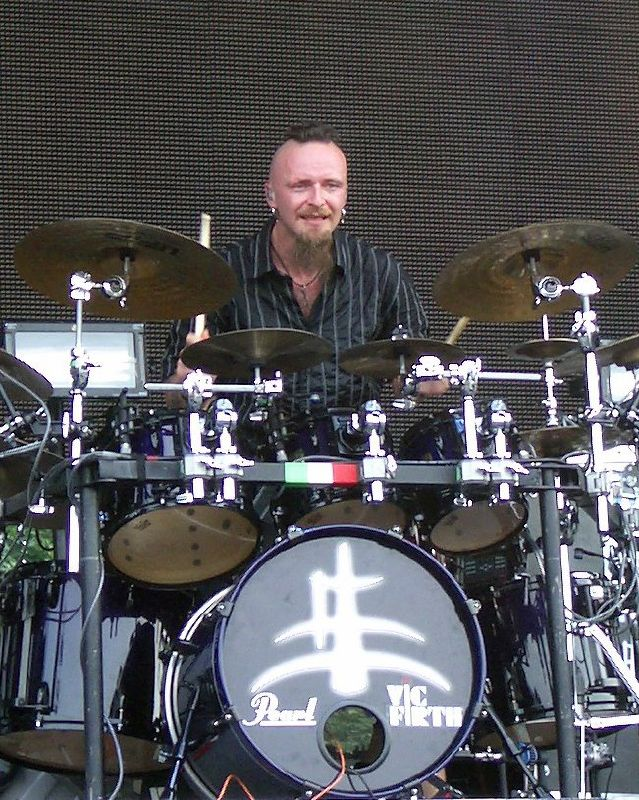 Cristiano Mozzati.